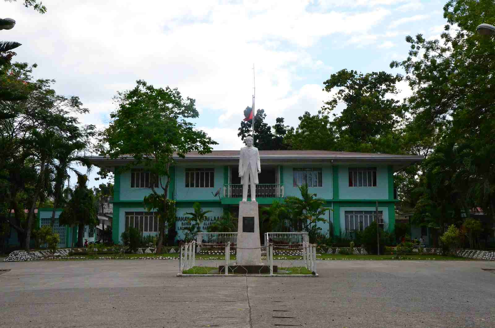 Bahay Pamahalaan ng Alabel